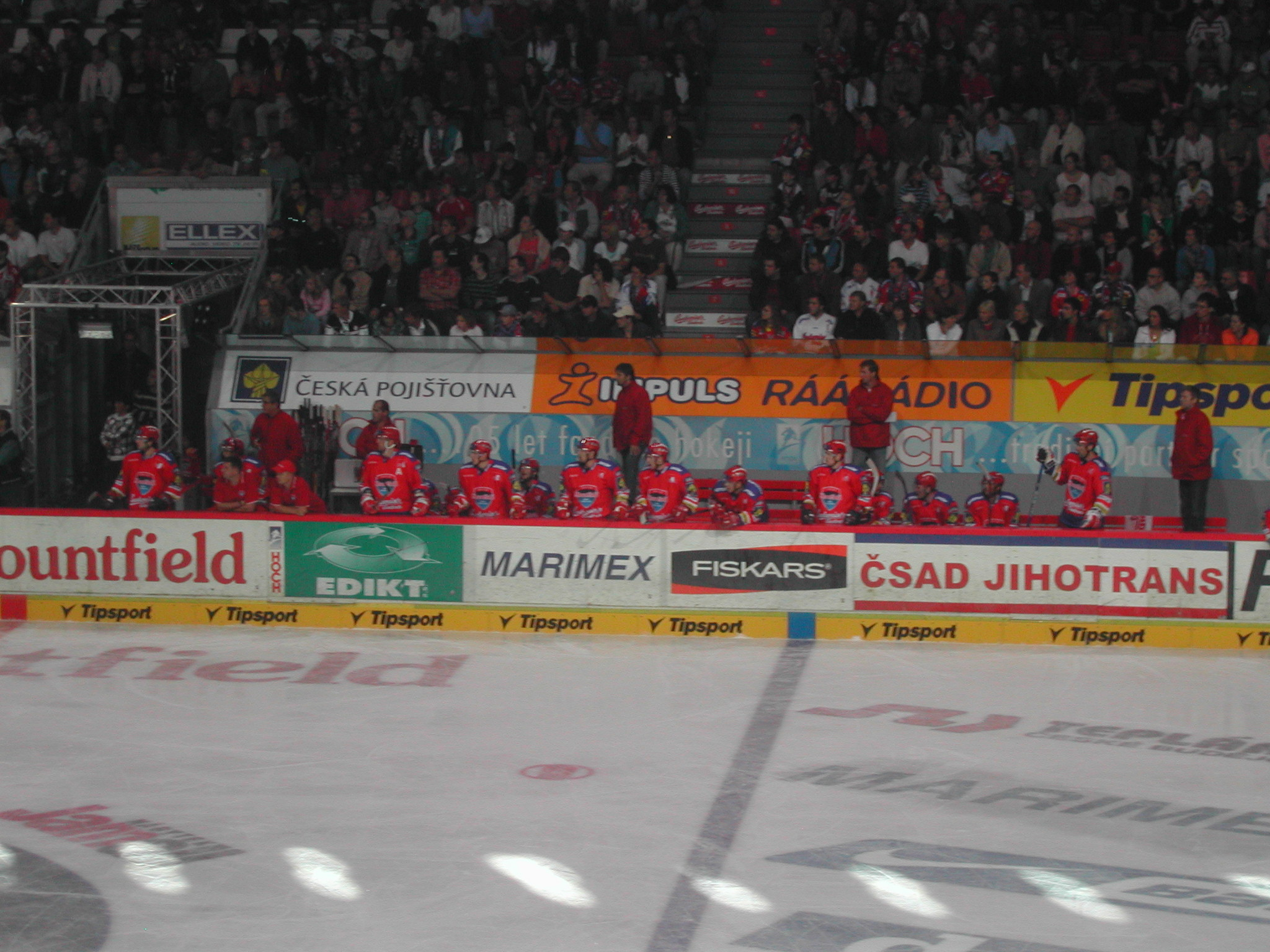 Hockey game HC České Budějovice vs. HC Lasselsberger Plzeň. Pics of České Budějovice